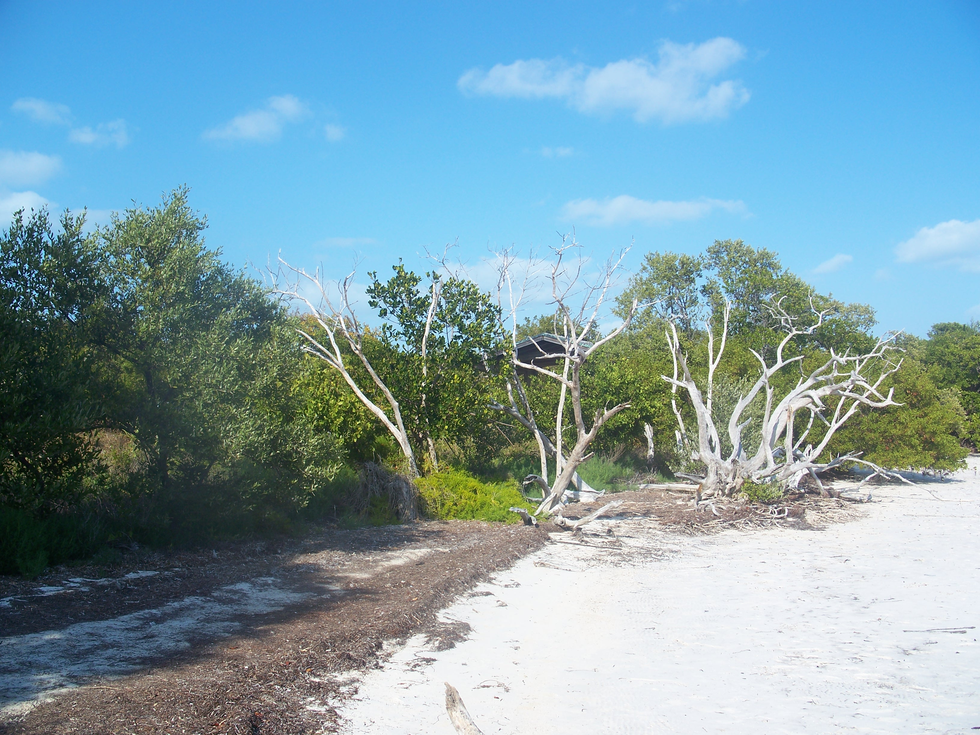 Long Key State Park: Trees